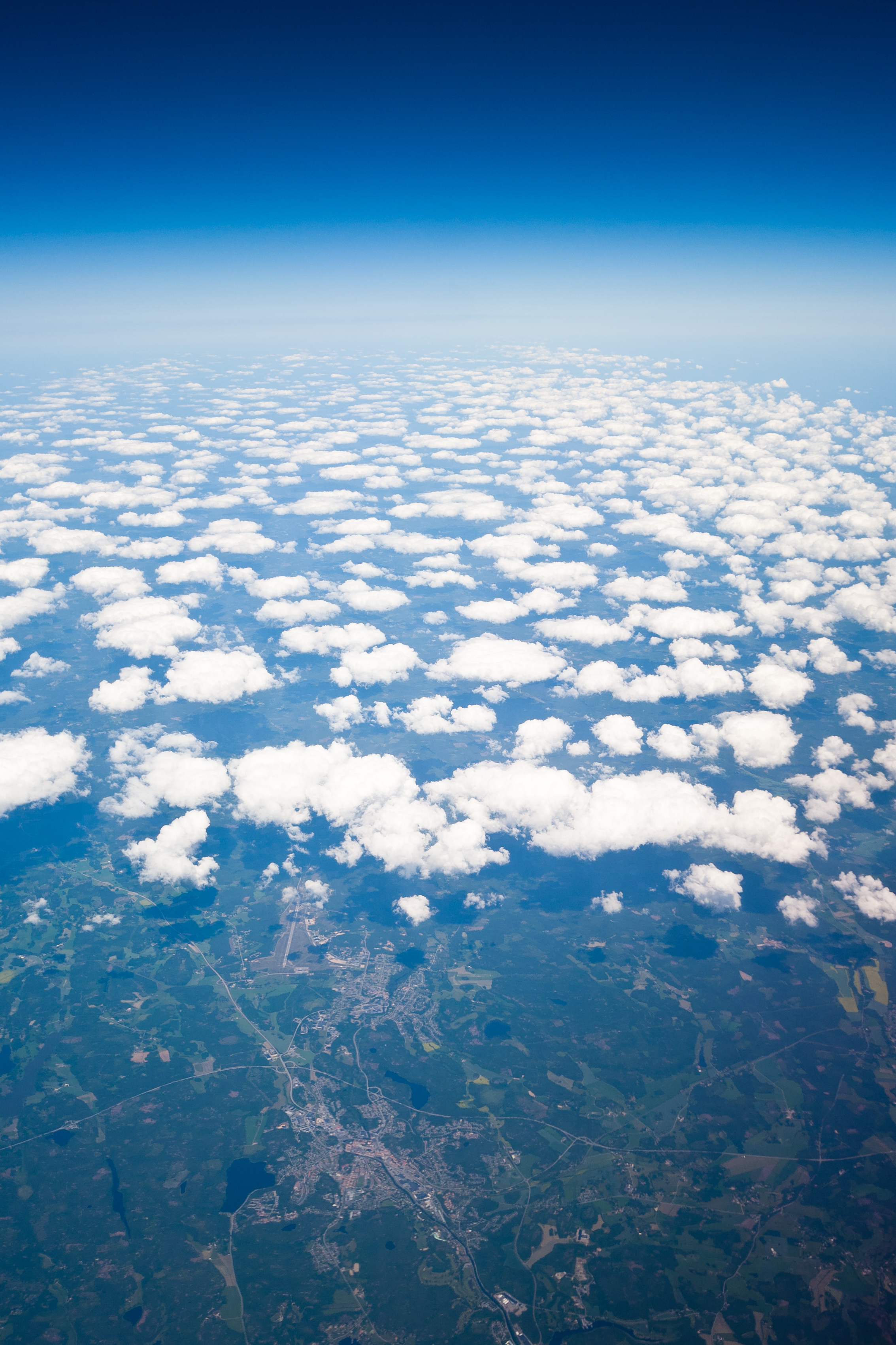 Clouds from above